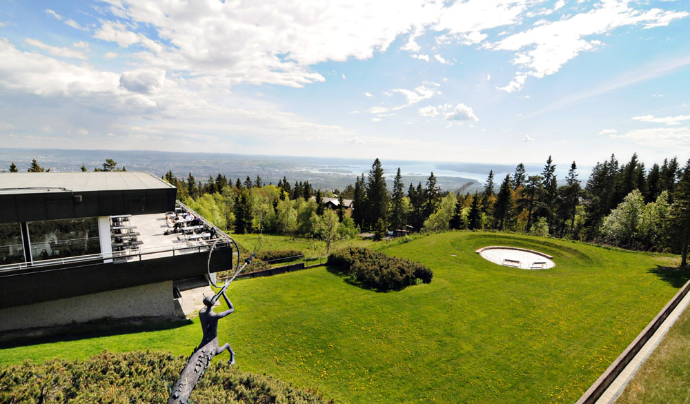 Fra taket